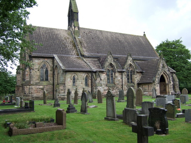 St Michael's Church In the village of Hulme Walfield